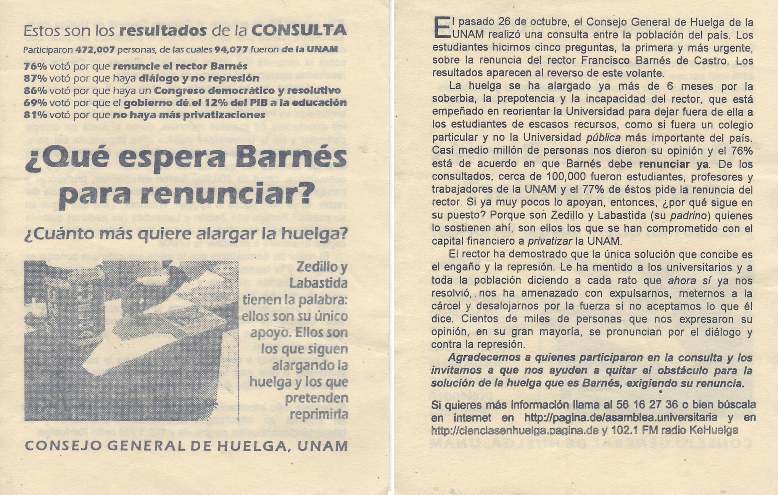 CGH information papers where they give to the public they position about the conflict.